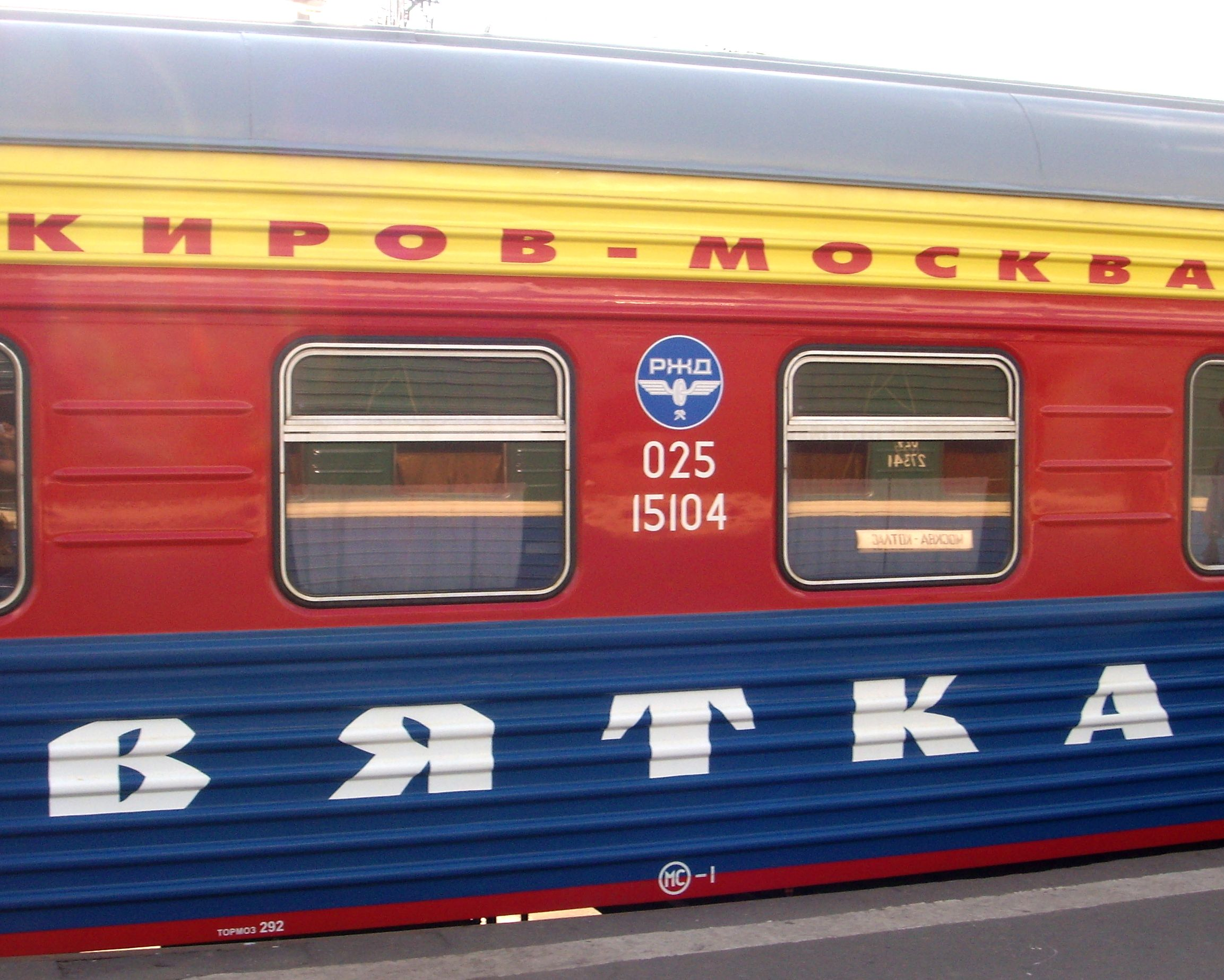 Сorporate train "Vyatka" at the Yaroslavl station in Moscow.